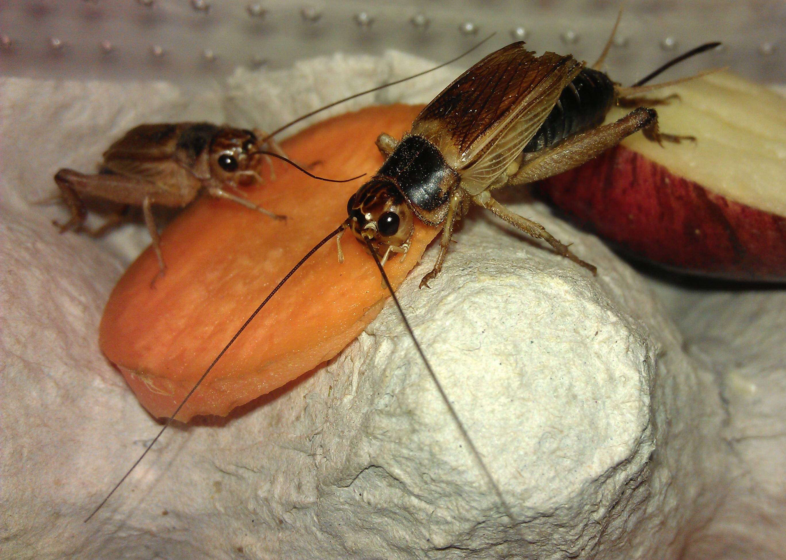 Two brown crickets (Gryllus assimilis) in captivity feeding on a piece of carrot.